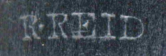 The stamp used by Robert Reid on his Northumbrian Smallpipes.